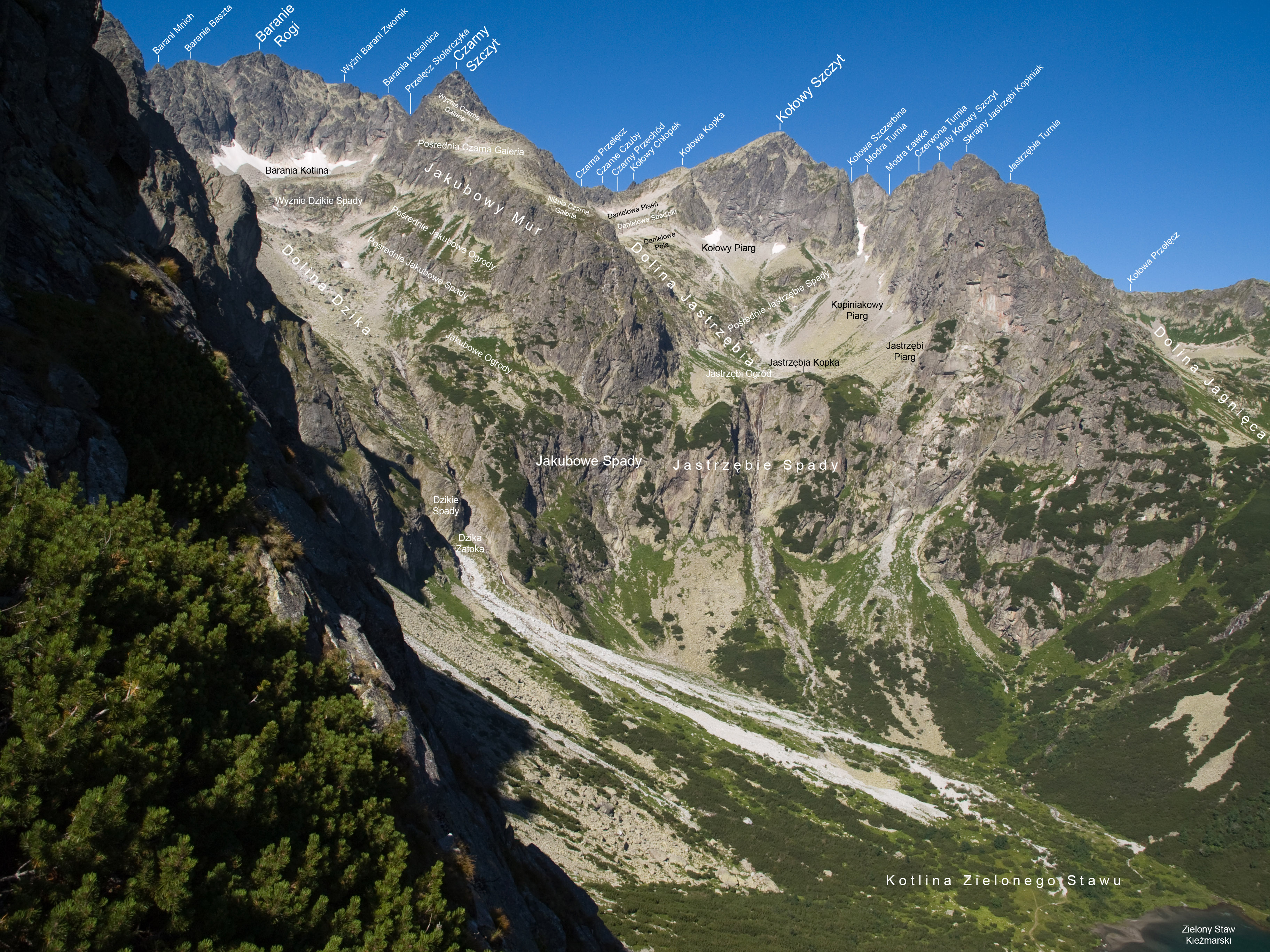 Malá Zmrzlá dolina and its surroundings (with Polish names)